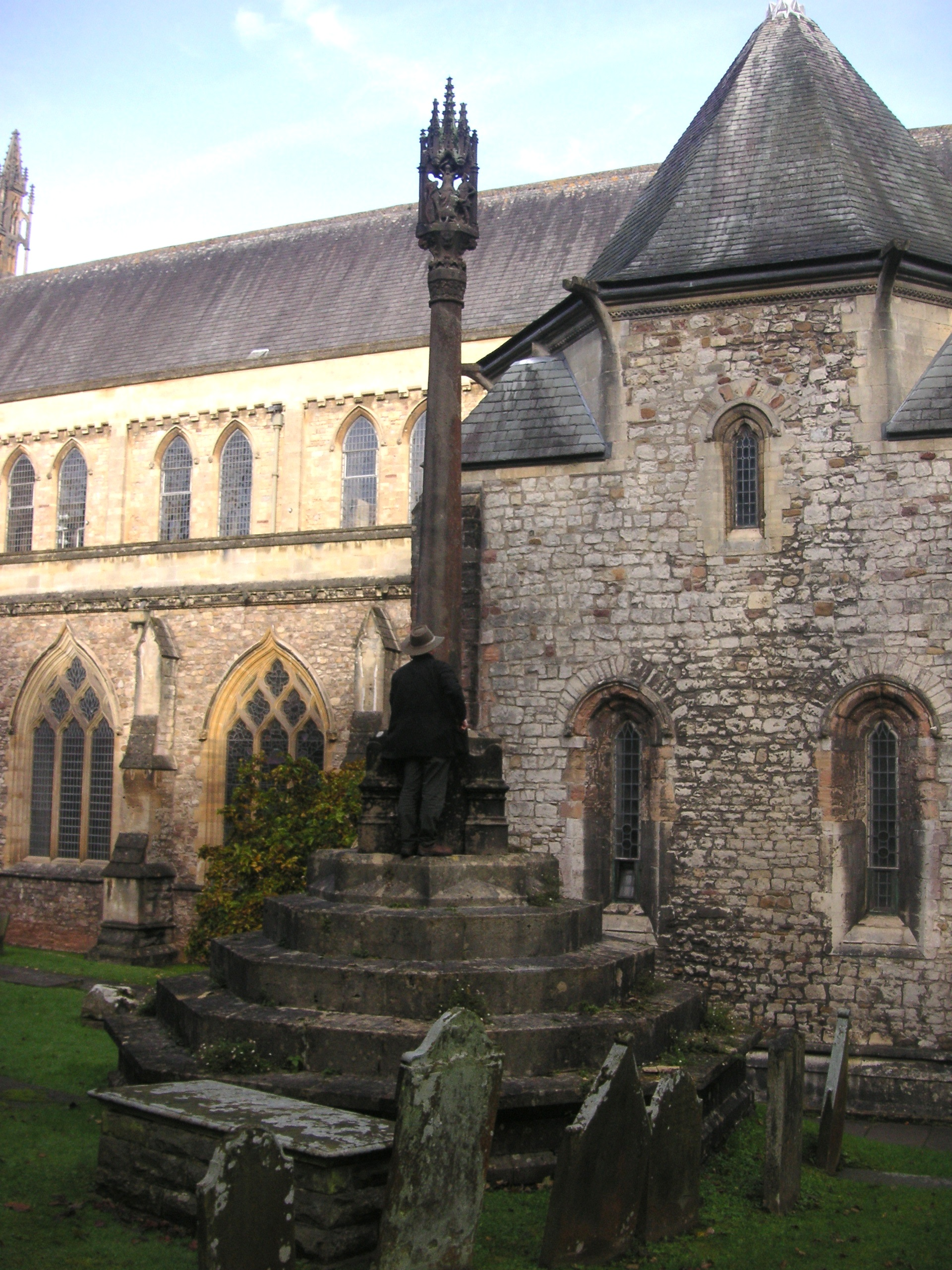 WD Conybeare's grave and monument in Llandaff Cathedral yard